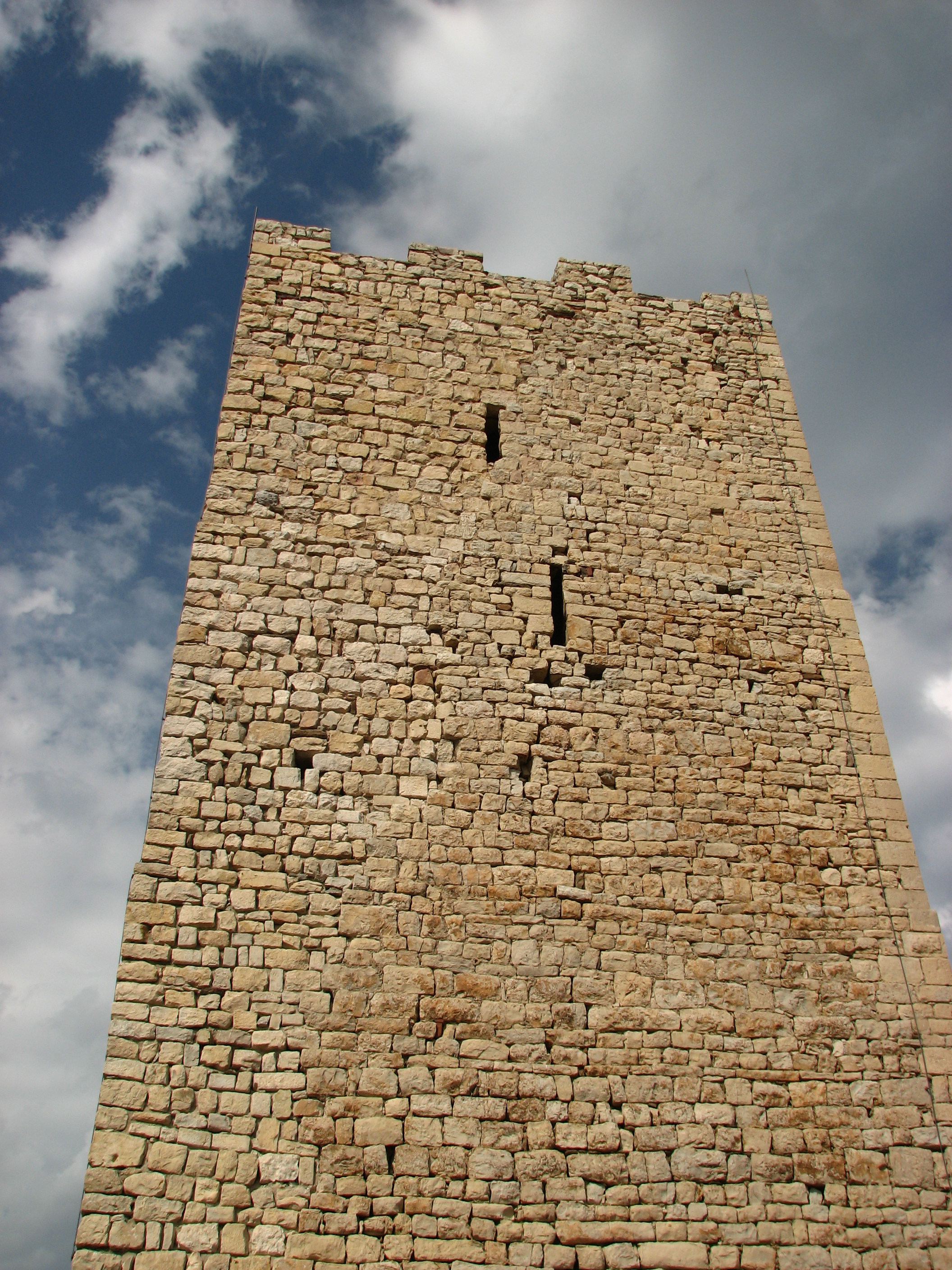 Posada, Sardinia: Castello della Fava or Broad Bean Castle